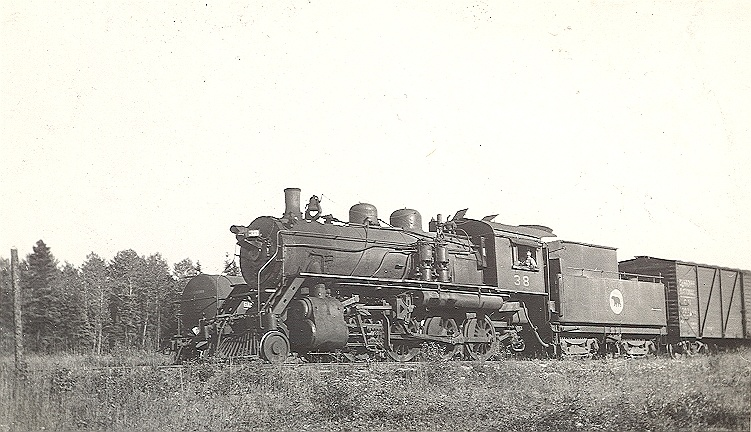 Title Algoma Central & Hudson Bay, Steam locomotive, 38, 2-8-0, Consolidation ID Number STR16340 Extent 1 photograph: b&w negative and 1 photo index card Date 1940 Scope and Content N/A Physical Description N/A Creator N/A Location Oba, Ontario, Canada Geolocation N/A Collection Name Science and Technology Railway Collection Keywords Algoma Central & Hudson Bay, Steam locomotive, 38, 2-8-0, Consolidation Oba, Ontario, Canada 1940 Motive Power, Force motrice, Railway Transport, Transport ferroviaire, Steam locomotive, Locomotive à vapeur Science and Technology Railway Collection General Notes N/A Rights and Permissions Public domain/Domaine public (Canada) Shelf Location N/A